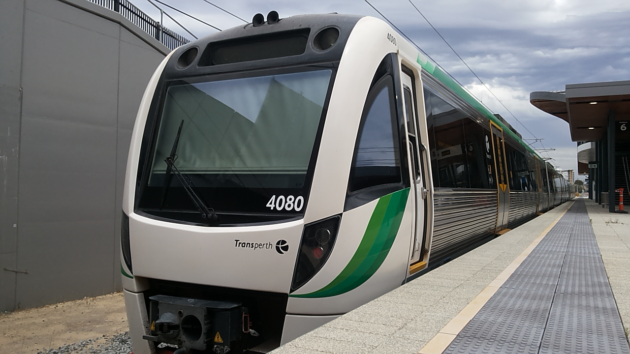 Transperth's Downer Rail/Bombardier B-Series 80, operated by Transperth Trains; seen at Perth Stadium Station.